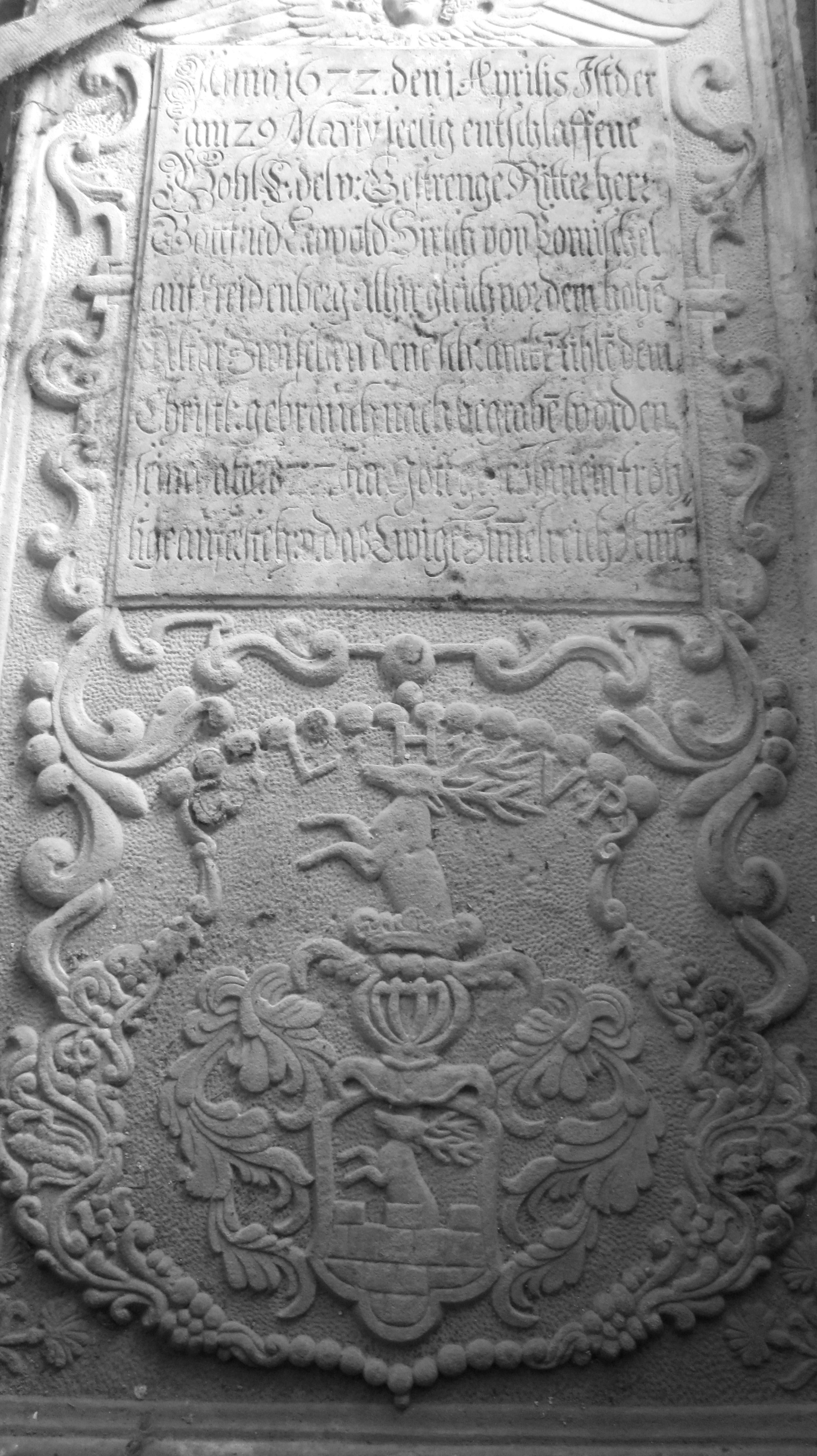 Epitaph of Gottfried Leopold Hirsch von Pomischel auf Freudenberg, 17th century, Markvartice parish church, Czech Republic.